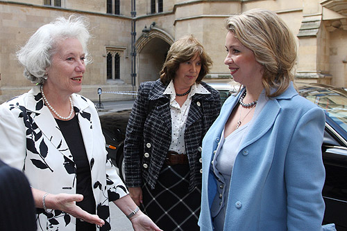 LONDON. Svetlana Medvedeva with Lord Speaker Helene Hayman, Baroness Hayman.